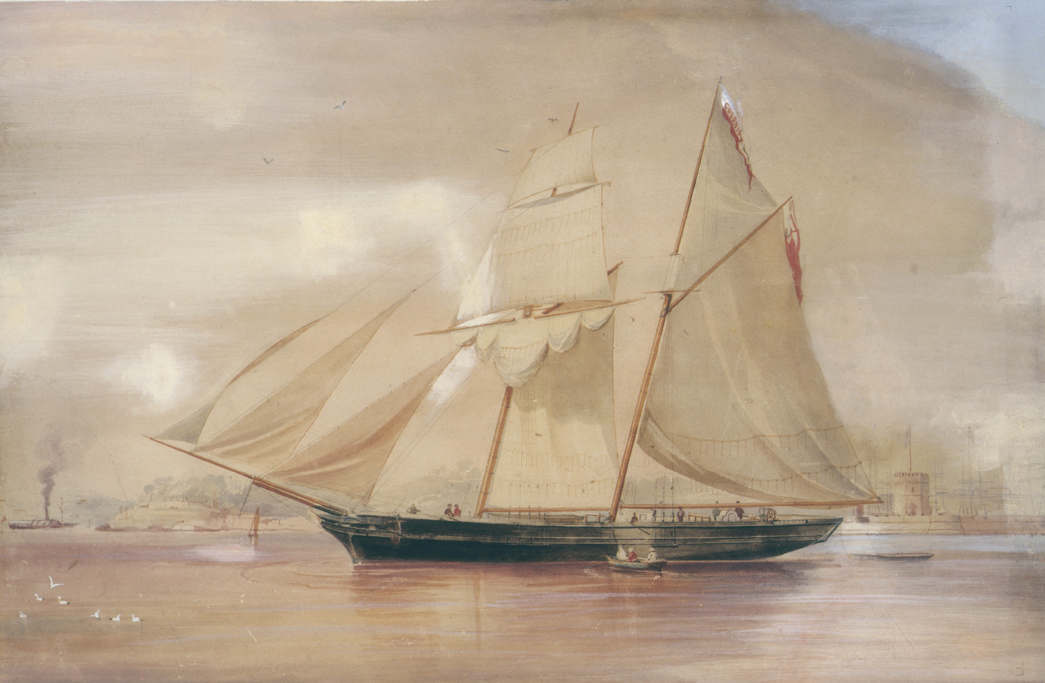 Schooner "Colonist" near Fort Macquarie built 1861 sank 1890